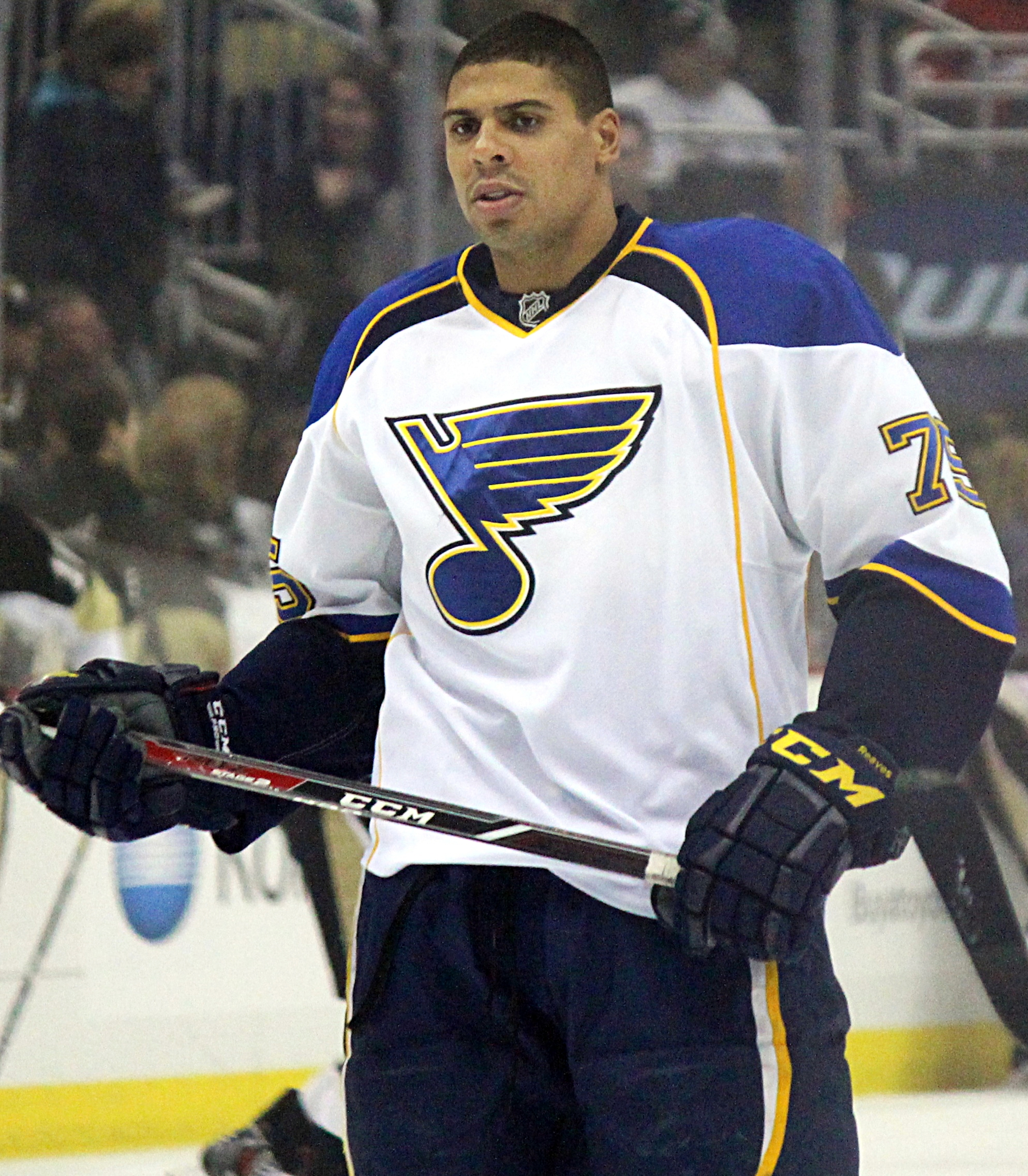 St. Louis Blues forward Ryan Reaves during a game against the Pittsburgh Penguins, March 23, 2014, at Consol Energy Center in Pittsburgh, PA.